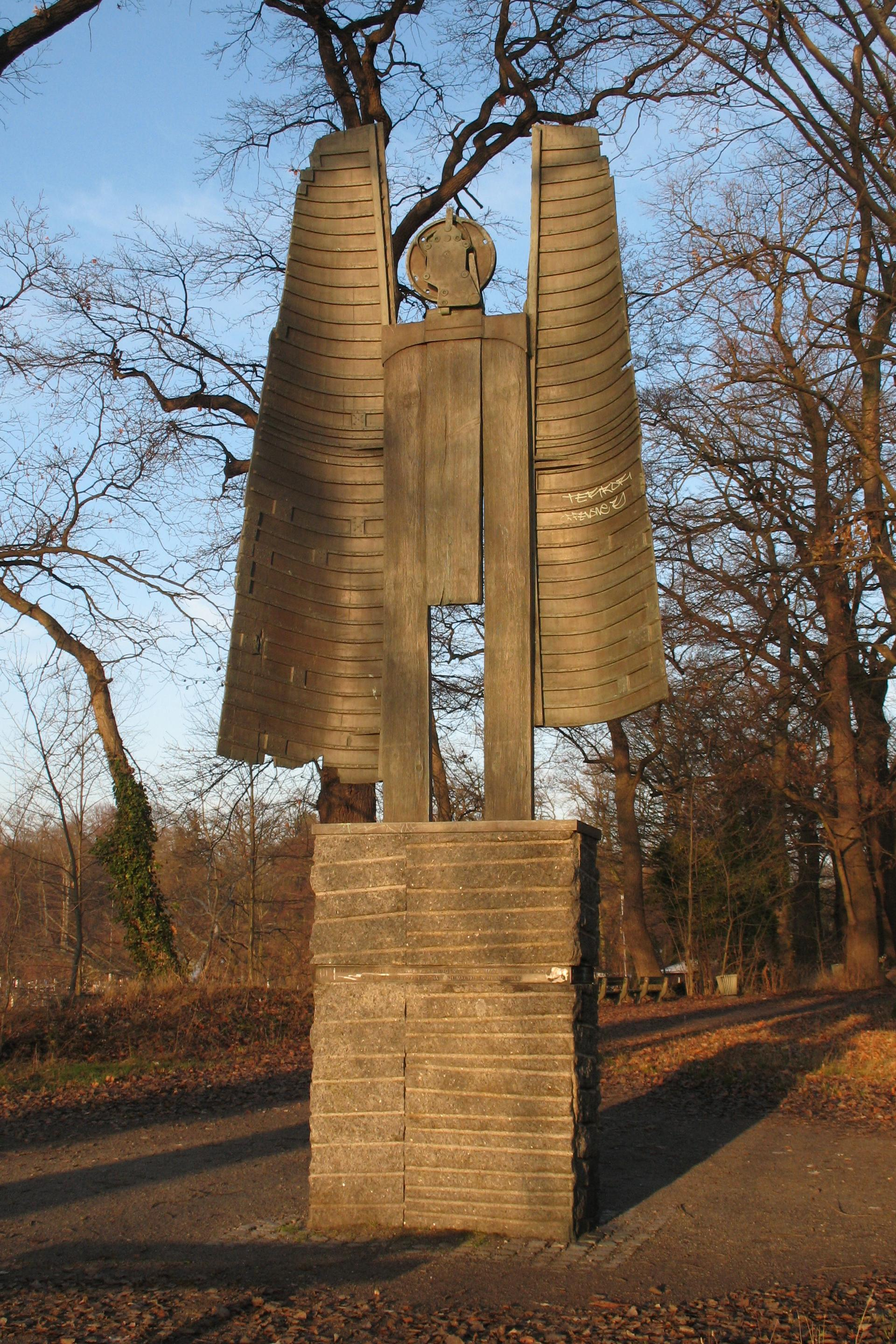 Sculpture by Siegfried Kühl (Hommage à Hannah Höch) in Berlin-Tegel, Germany